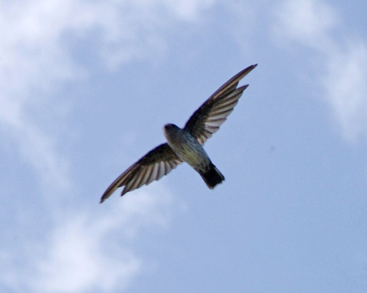 Cave Swiftlet Collocalia linchi 10th. August 2007 Location : Gunong Gede, Java, Indonesia Seen flying in the National Park Distribution: _Q0S8609